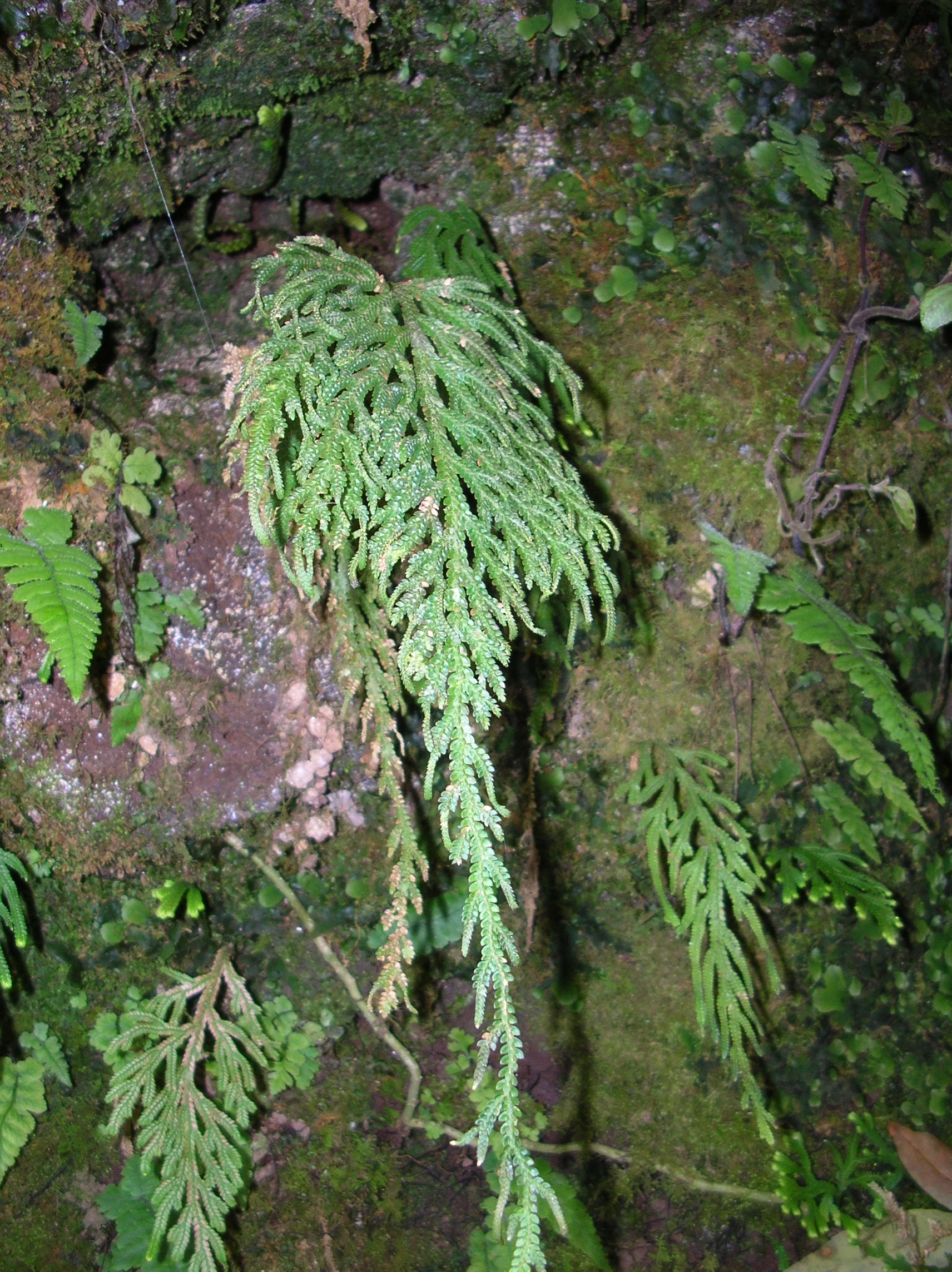 Selaginella arbuscula (habit). Location: Maui, Makawao Forest Reserve